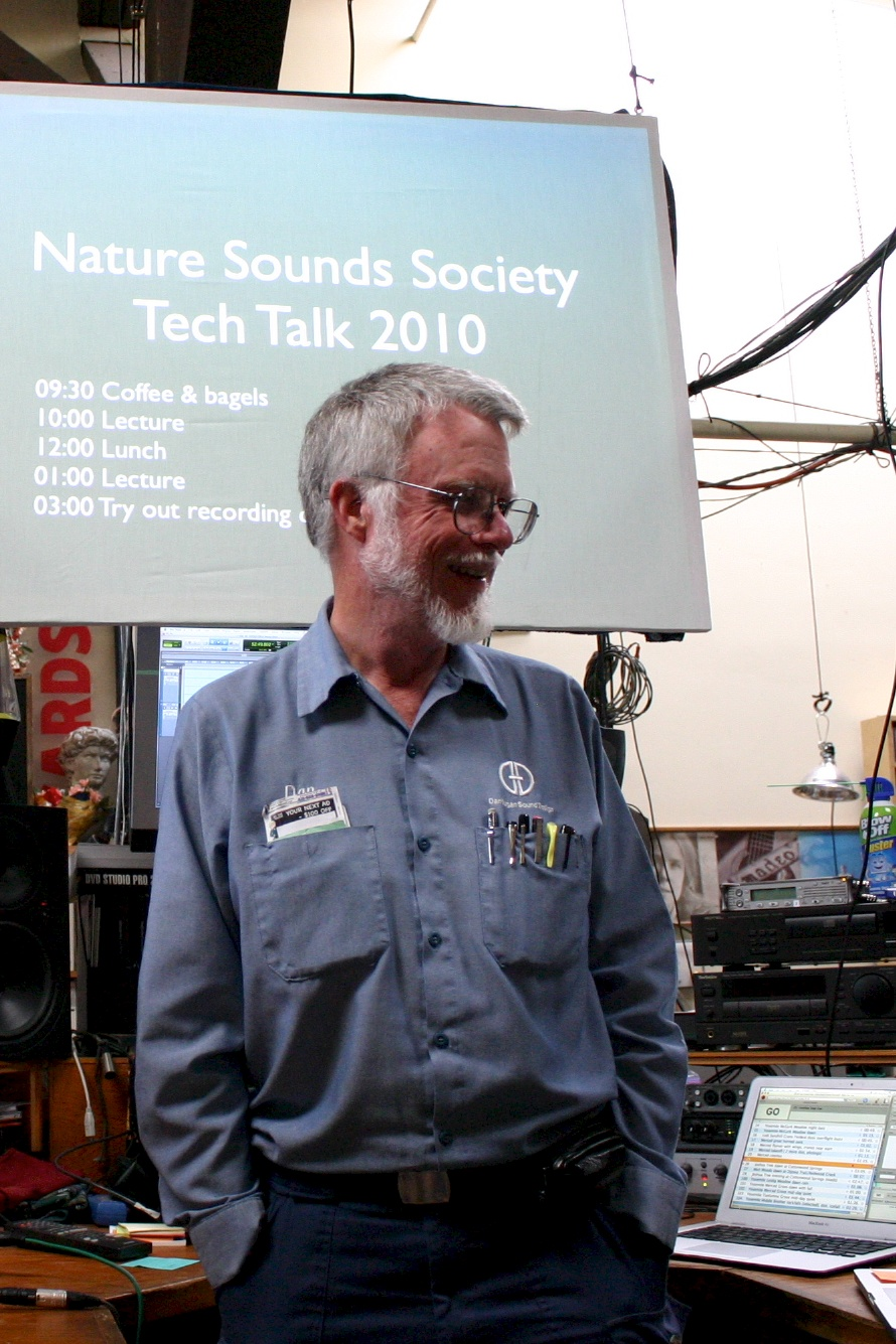 Dan Dugan presenting at the Nature Sounds Society's annual Tech Talk, 2010. In Dan Dugan's laboratory in San Francisco, CA USA